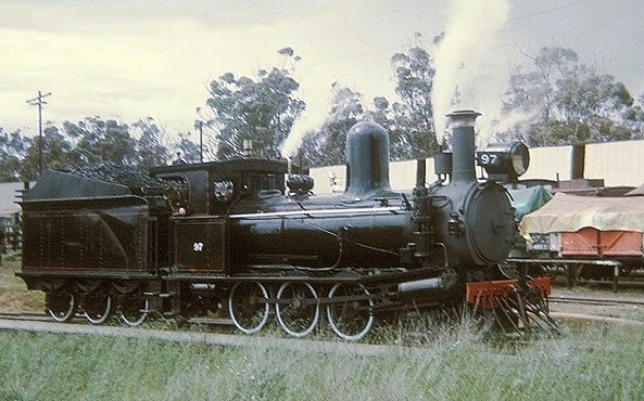 Y class engine 97 on Jamestown, South Australia, turntable on historical train. October 1967.